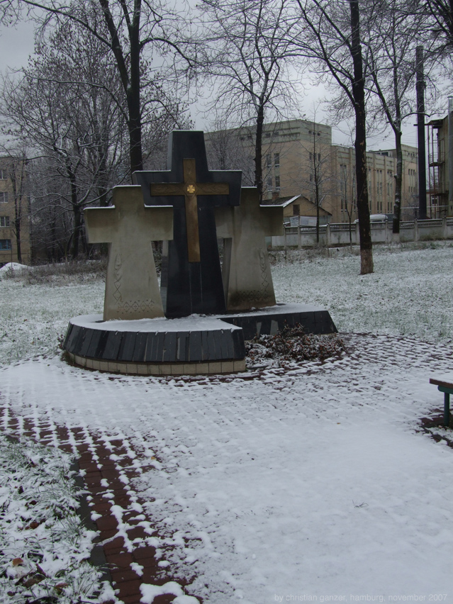 Monument for NKVD-Victims, opposite of Gorkij Park Vinnytsya. The monument is located near the site where in 1943 mass-graves have been found on the „Old cemetery“.